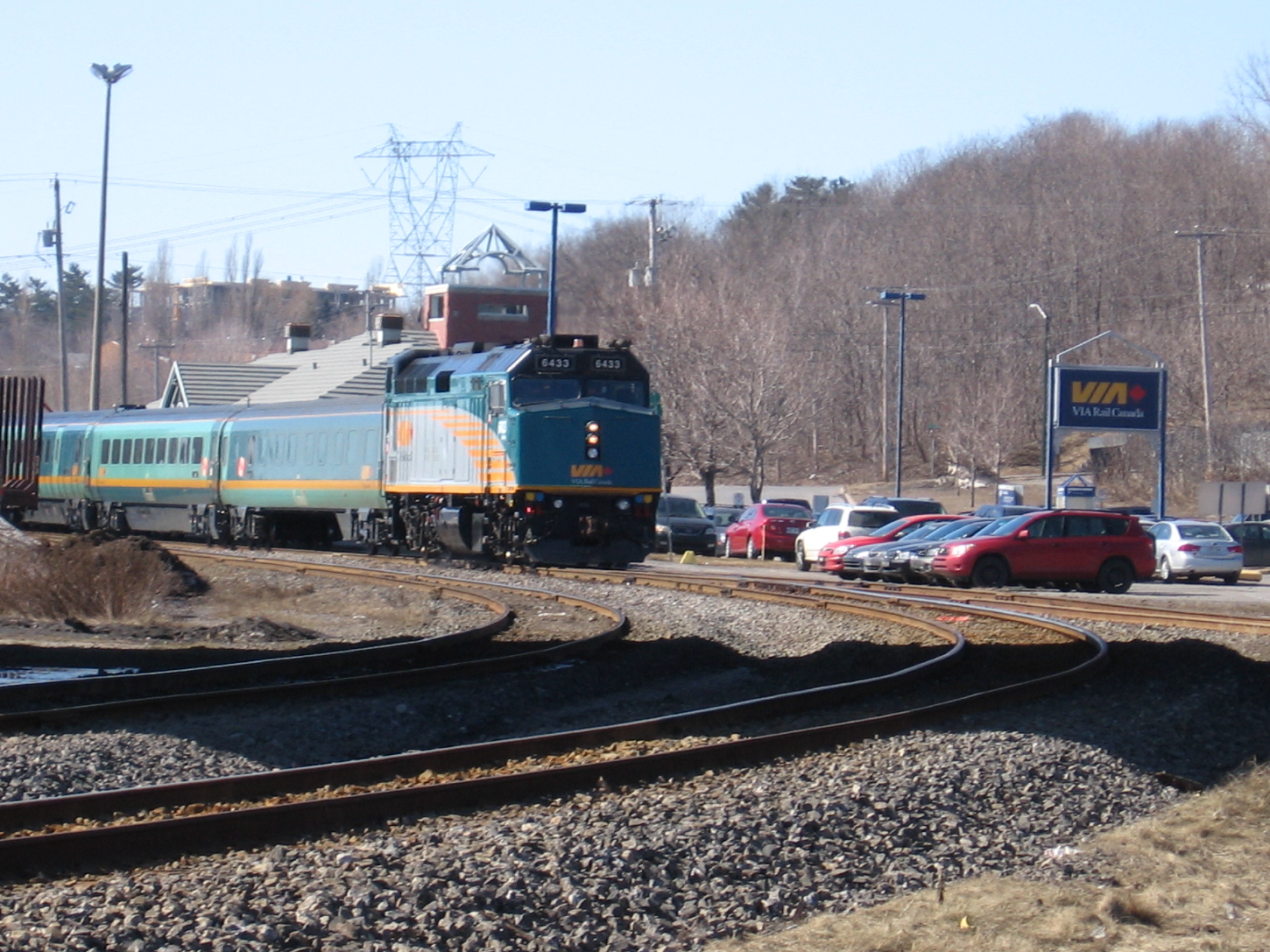 Viarail train in Sainte-Foy